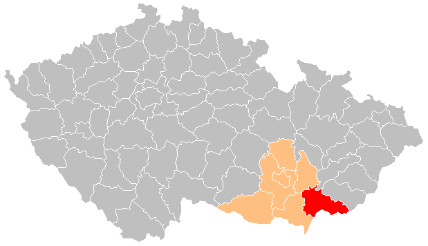 Hodonín District within South Moravia Region. Current borders of districts since January 1, 2007.